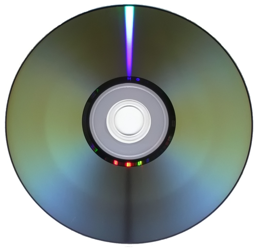 DVD-R bottom side